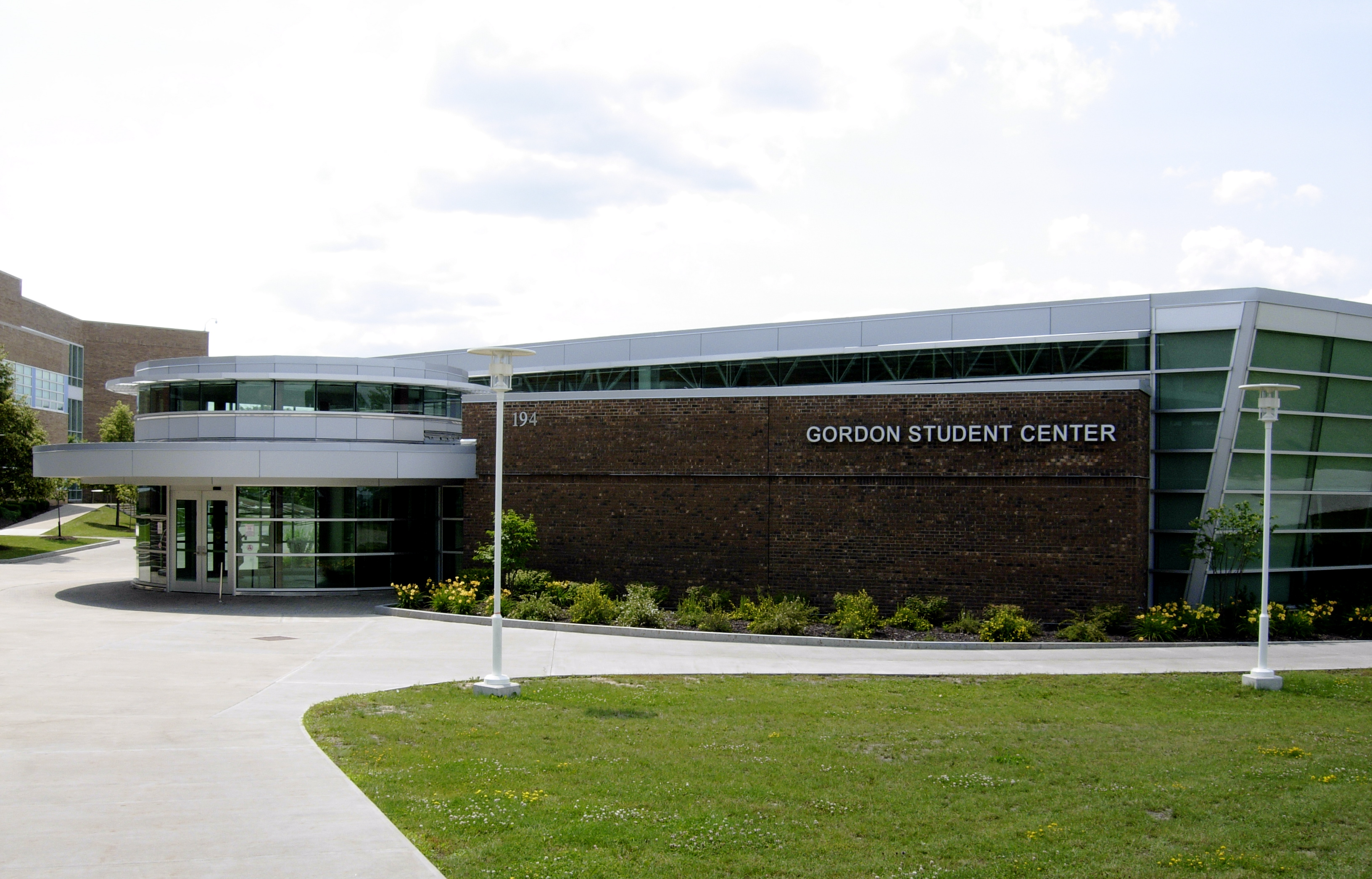 Gordon Student Center, Onondaga Community College